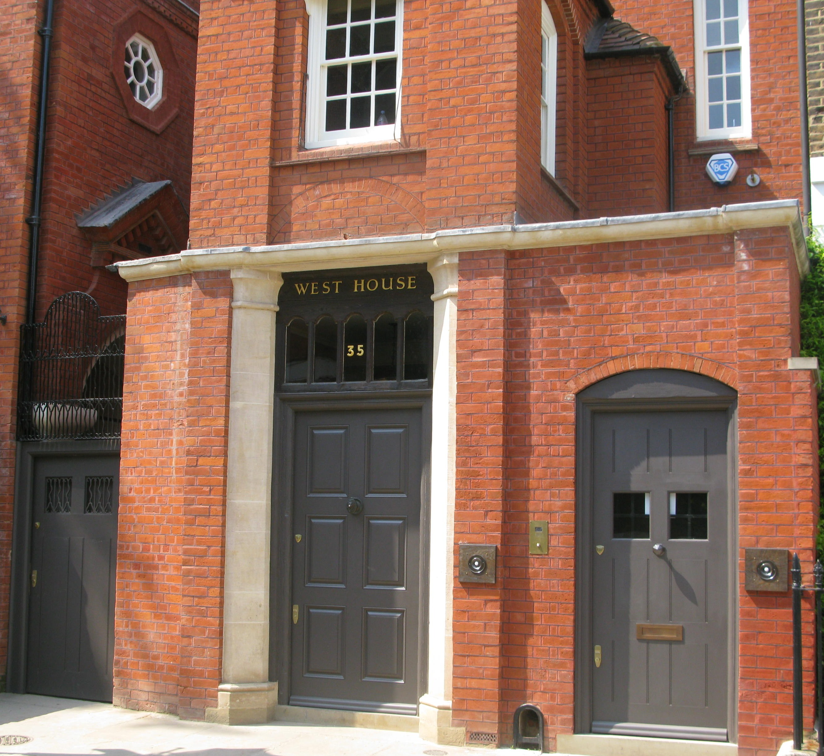 The West House, 35 Glebe Place, architect Philip Webb. Taken 24 May 2012